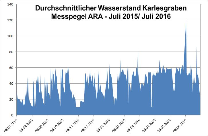 Level measurement of the Karlesgraben through manual records of July 8, 2015 to July 7, 2016 at the ARA in Dornbirn. In cm. The annual average is 39.77 cm.